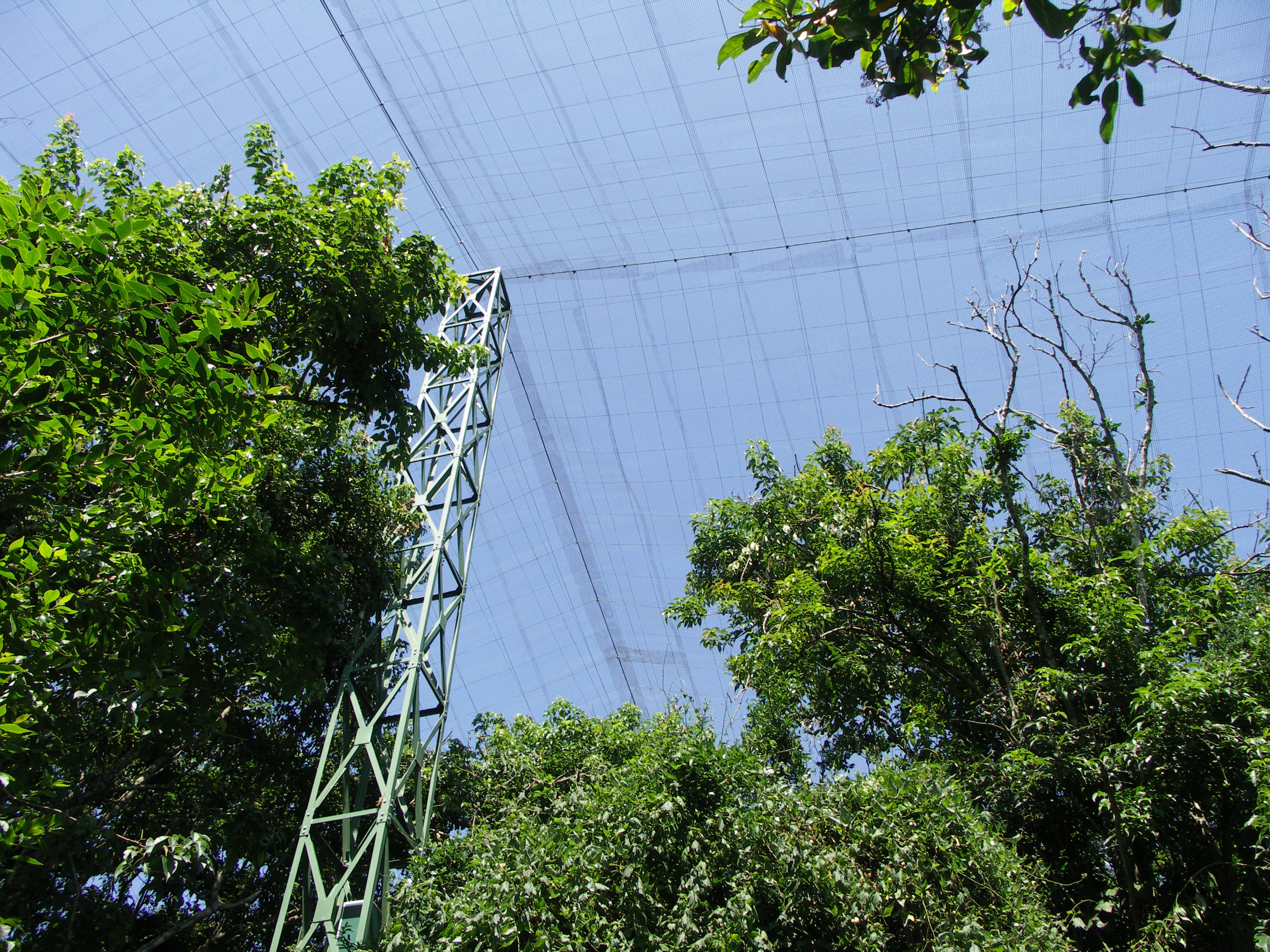 One of the 28 masts holding up the 80 tonnes of wire mesh overing the Birds of Eden Aviary. Western Cape, South Africa